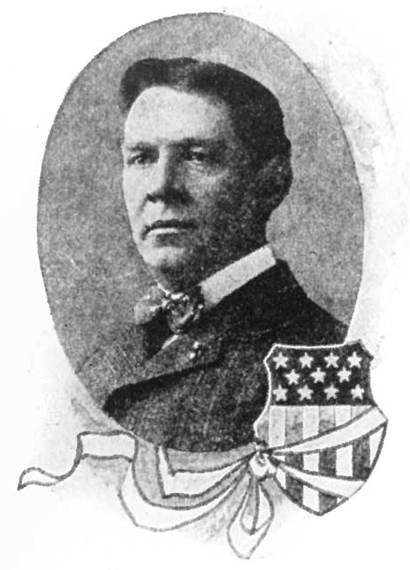 Landsman Patrick J. Kyle, U.S. Navy, who was awarded the Medal of Honor for saving a drowning shipmate of the USS Quinnebaug at Port Mahon, Minorca, Spain on 13 March 1879. Halftone reproduction of a photograph, published in Deeds of Valor, Volume II, page 99, by the Perrien-Keydel Company, Detroit, 1907.